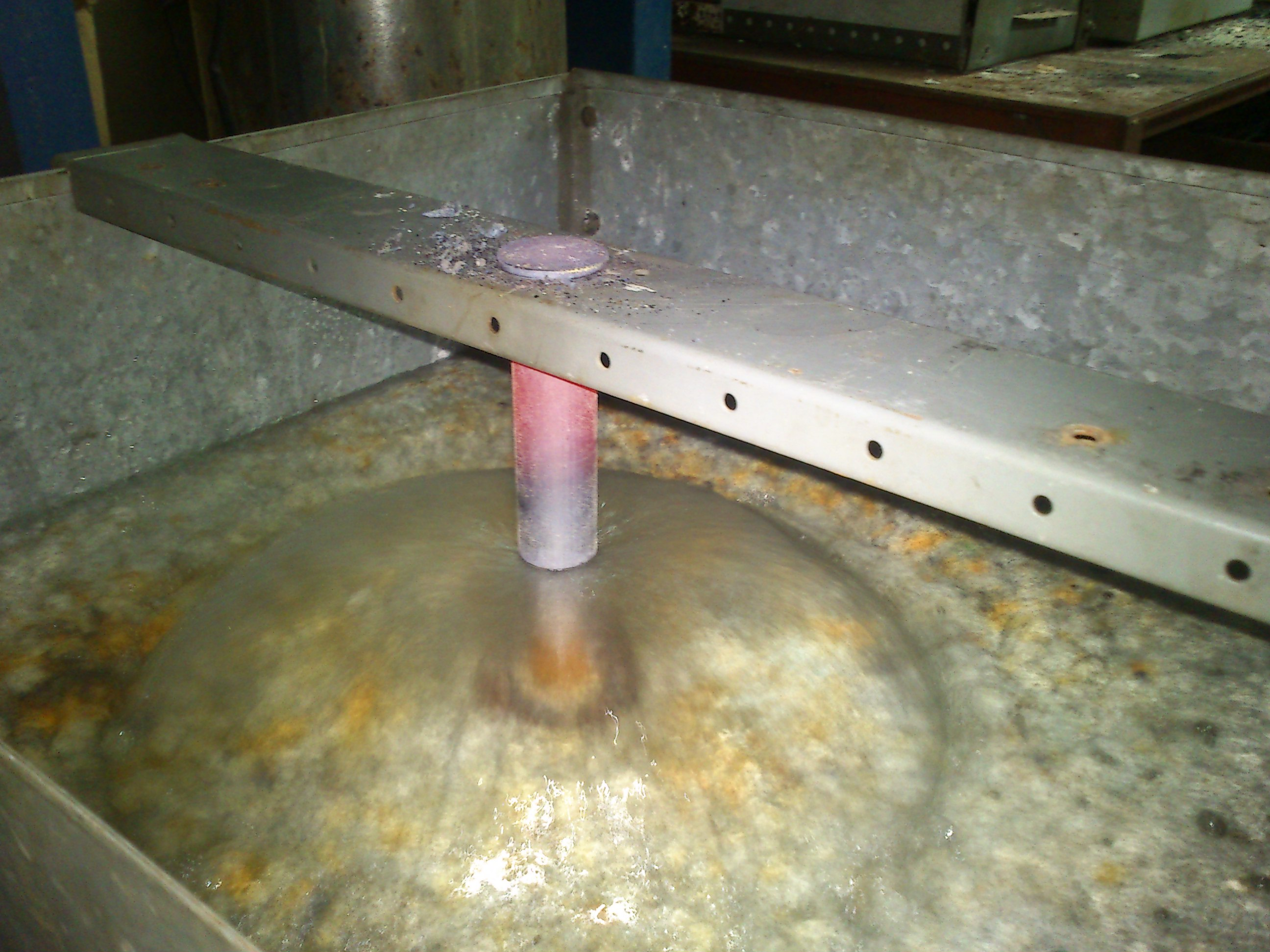 Jominy Test to determine the hardenability of a steel